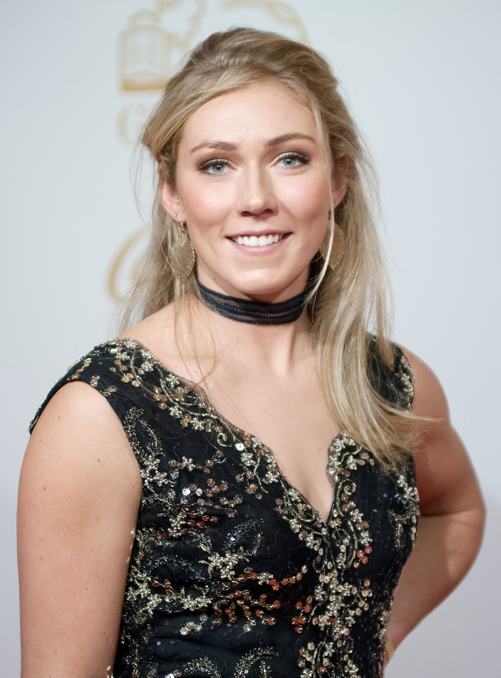 Mikaela Shiffrin, guest at the Night of Sports 2016, the annual award show for the Austrian Sportspersonalities of the Year (Austria Center Vienna, Vienna, Austria).